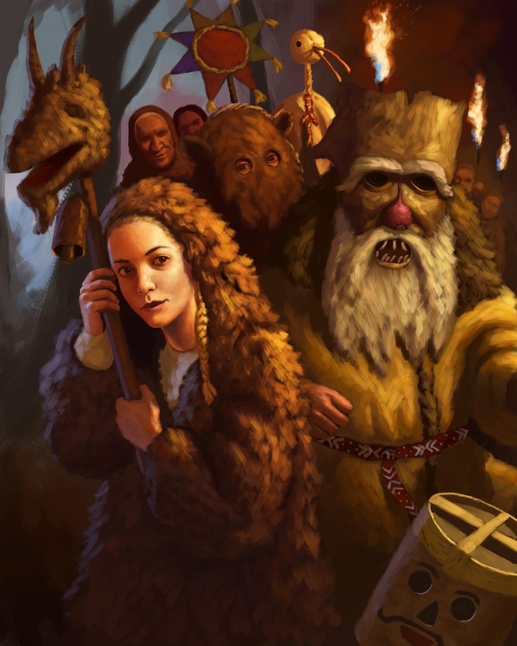 Kalyady - the Belarusian pagan folk holiday